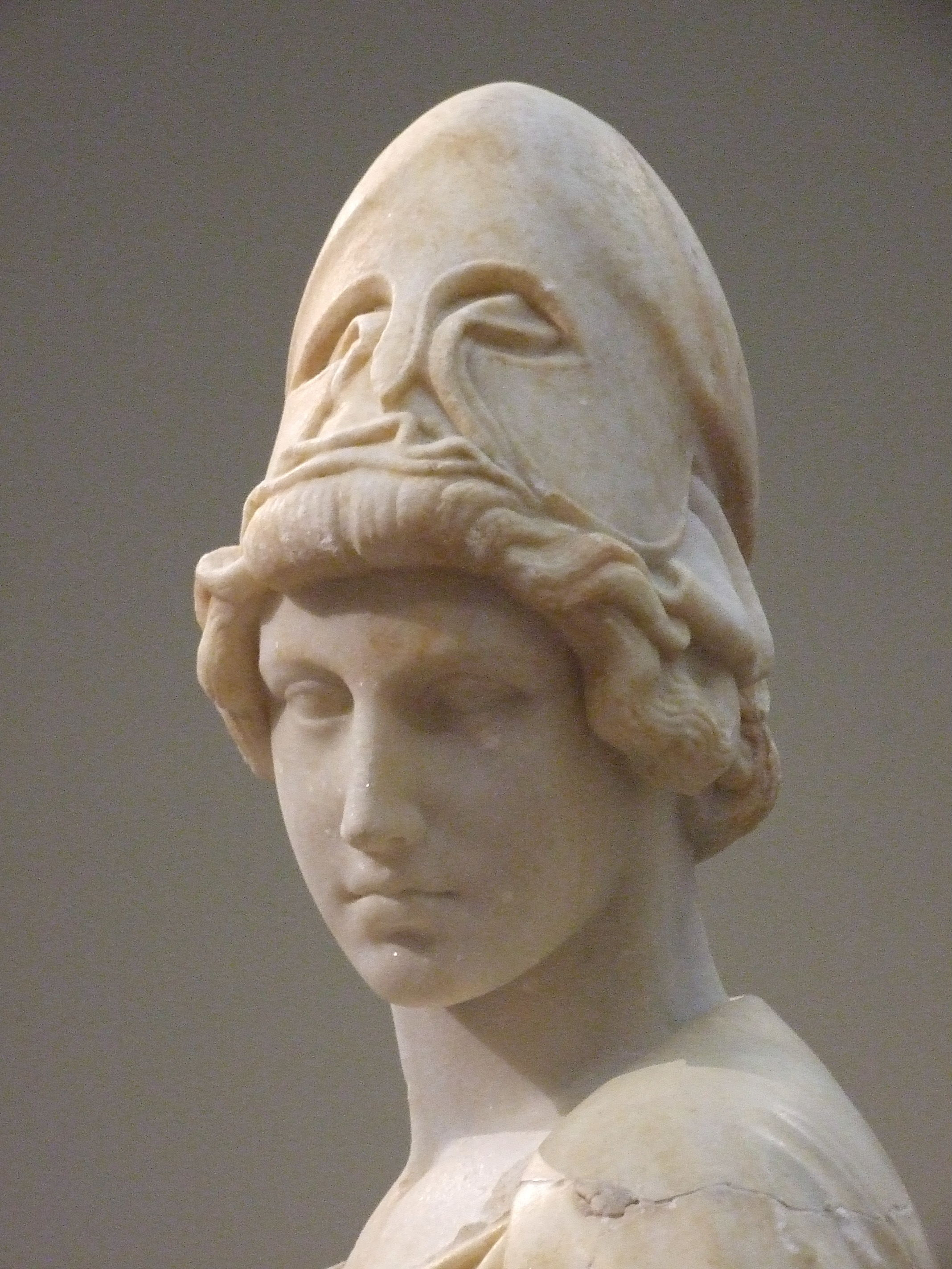 Unknown sculptor: "Athena of Myron", "Liebieghaus" in Frankfurt am Main, Germany.